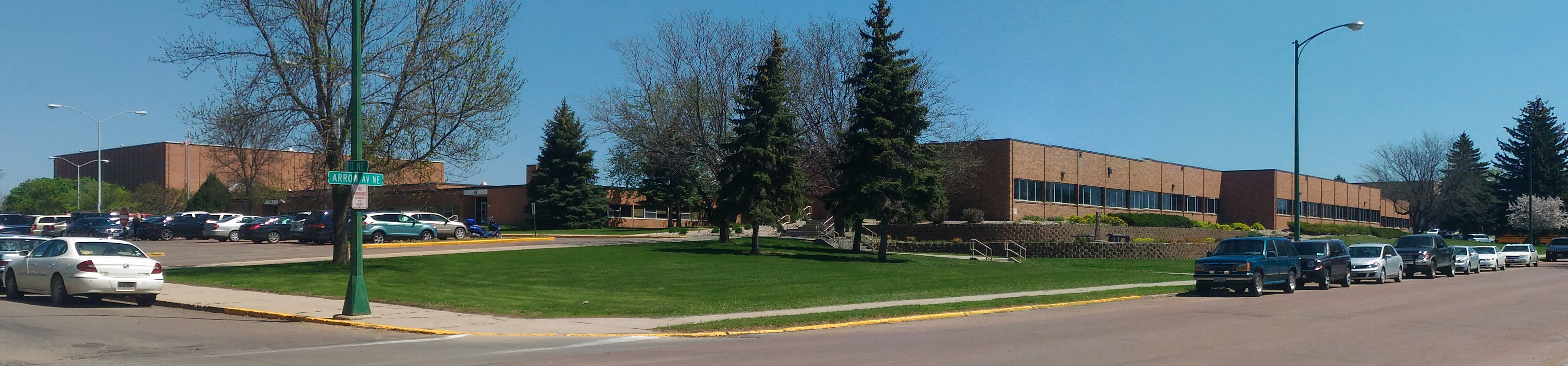 Watertown High School, in Watertown, South Dakota. Multiple photos taken 11 May 2017 with a mobile phone, stitched together with software; cropped.